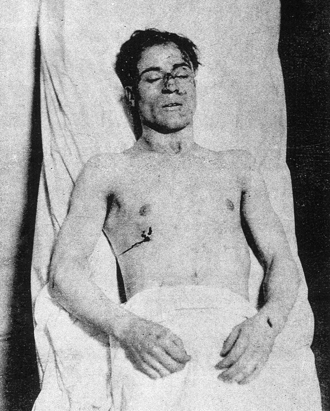 The body of Generoso Nazzaro, the alleged killer of Giosue Gallucci, who was killed himself on March 16th, 1917 (cropped).